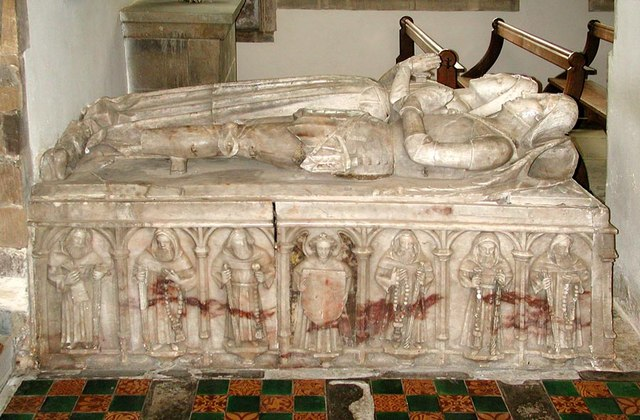 Church of England parish church of St Mary the Virgin, North Aston, Oxfordshire: late 15th century alabaster monument with recumbent effigies of a knight in armour and his lady, believed to be John Ann (d. 1416) and his wife Alicia. On the side of the chest the bas relief of an angel holding a shield is flanked by those of six monks holding staves and rosaries